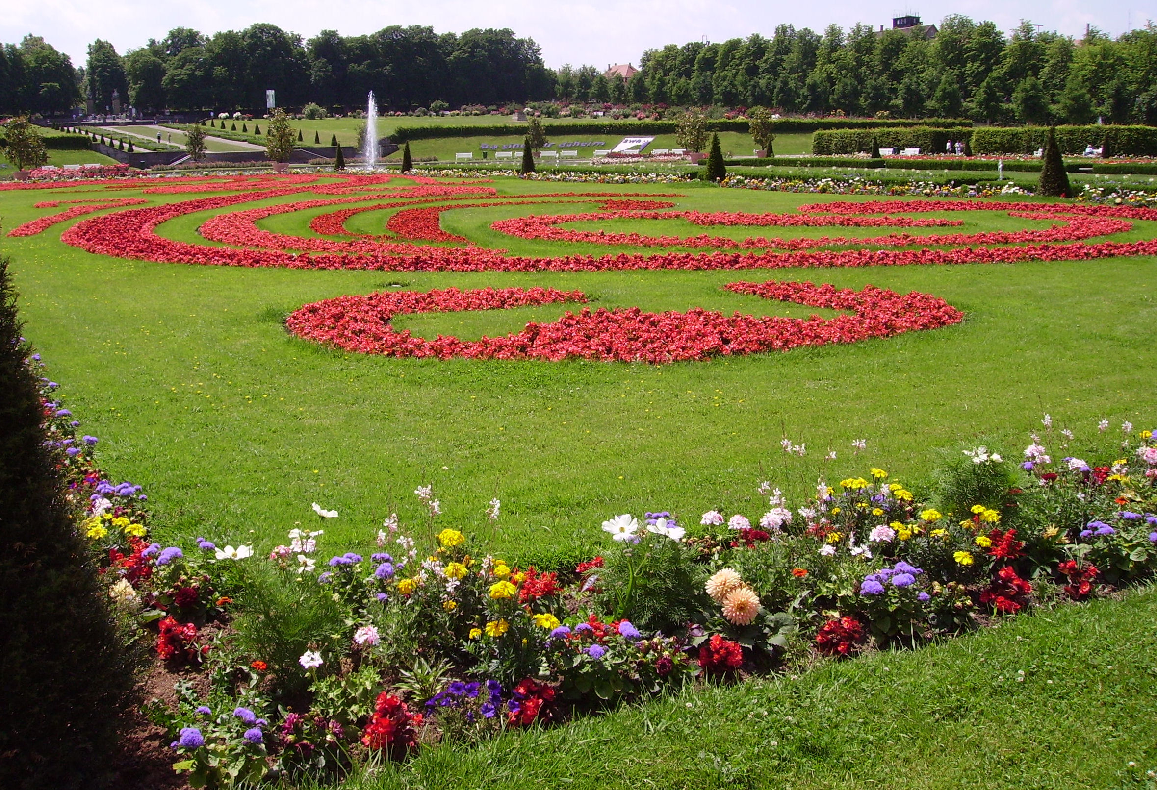 Baroque Garden at Schloss Ludwigsburg, Germany.